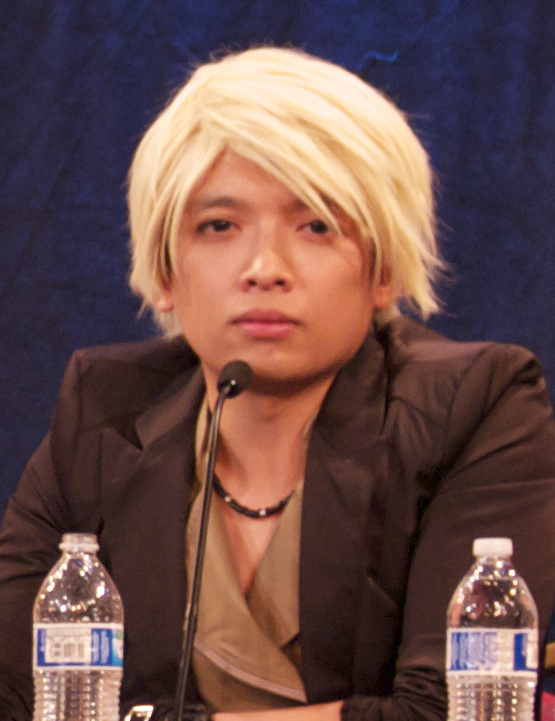 Rooster Teeth panel at PAX Prime 2013